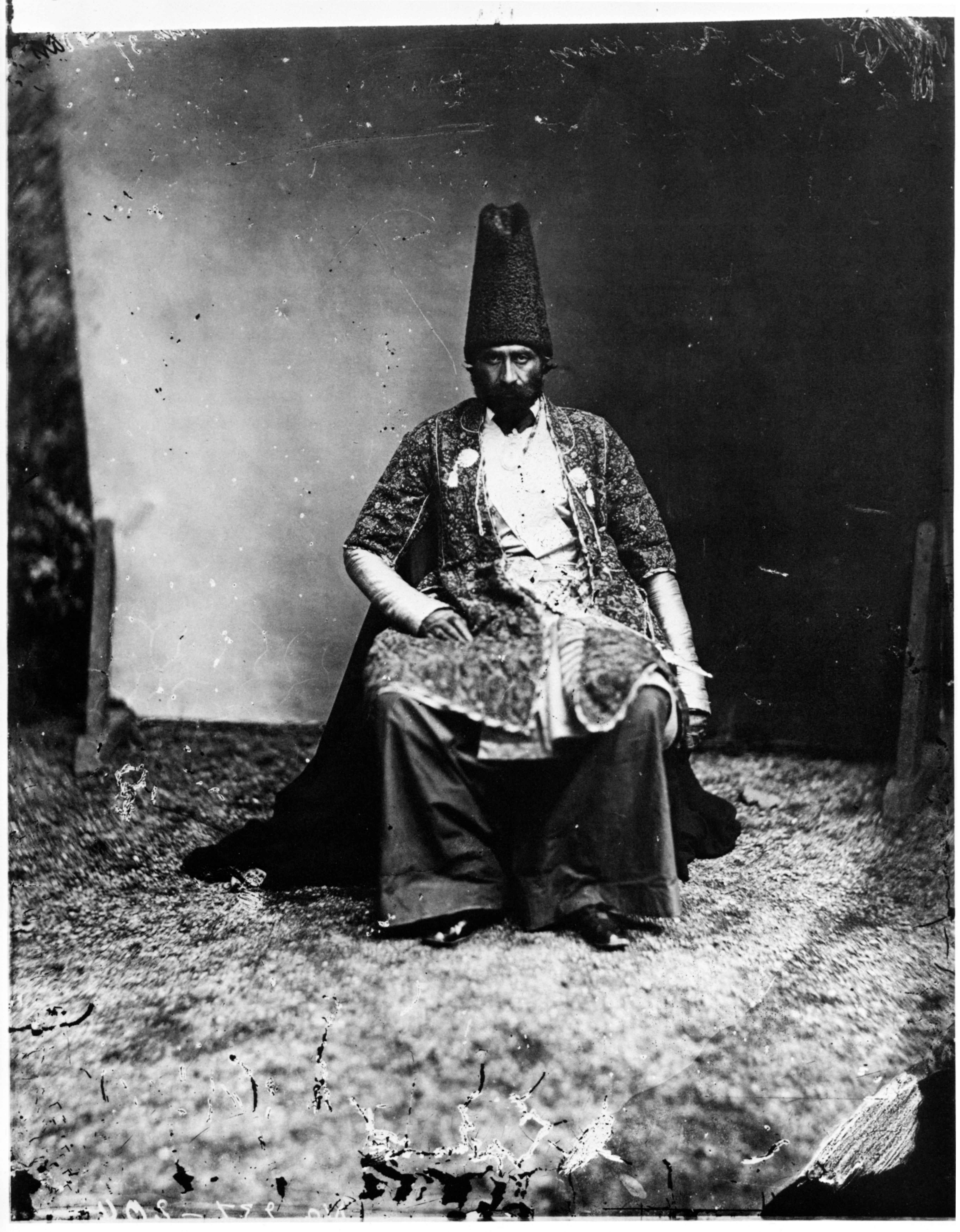 Farrokh Khan Amin-Doleh, Ferouk Khan, also Feruk Khan or Ferukh Khan (1814 - 1871), was Vice Premier to the court of Mozaffar ad-Din Shah Qajar and the Persian ambassador to the Emperor of the French, Napoleon III and Queen Victoria.